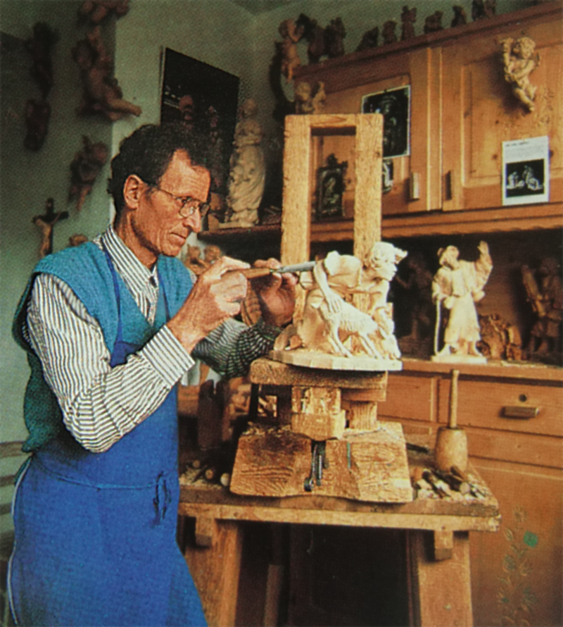 Master-Woodcarver Ulrich Bernardi 1991 in his atelier.